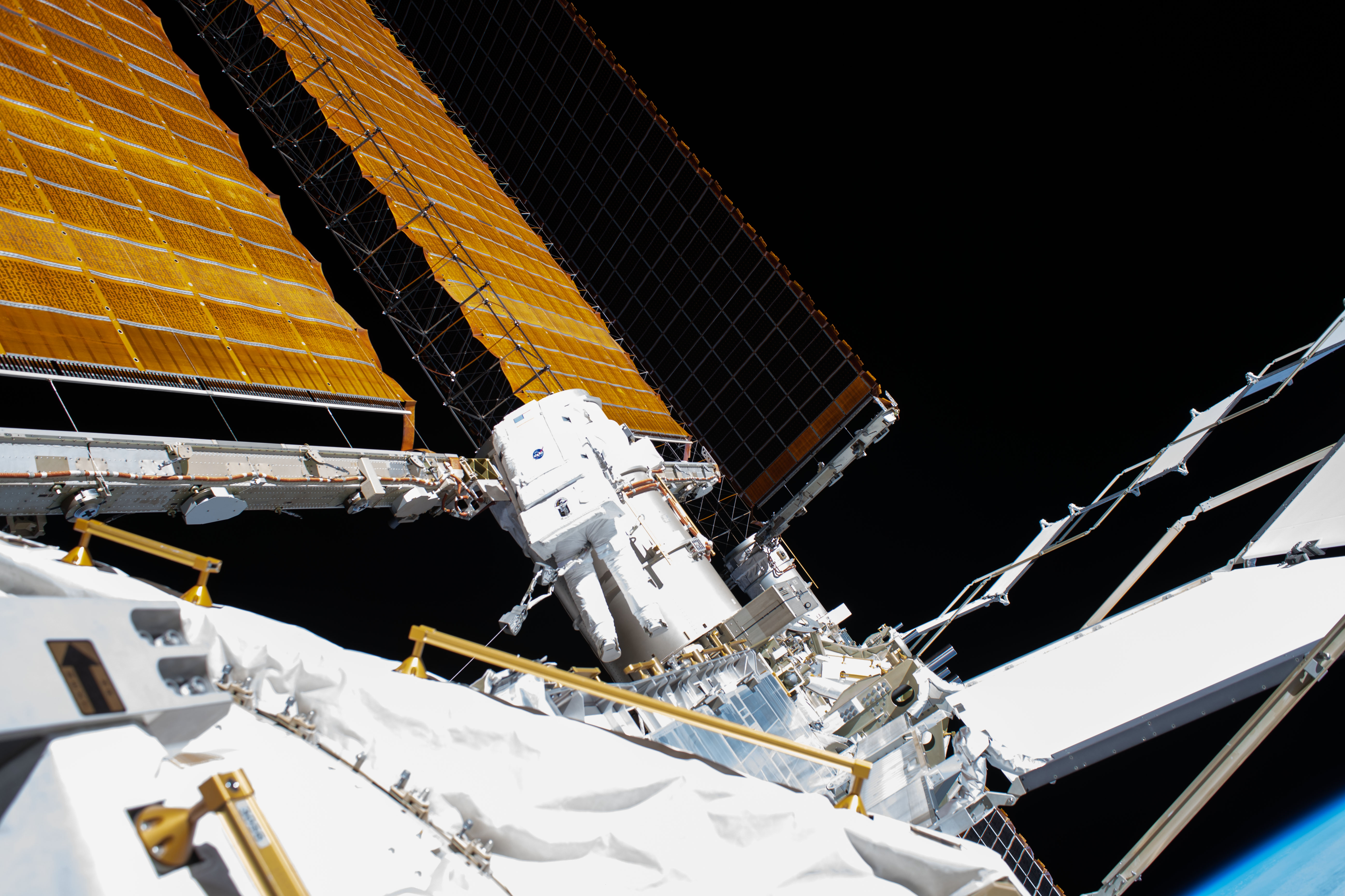 iss063e034124 (July 1, 2020) --- NASA astronaut and Expedition 63 Flight Engineer Bob Behnken (center) works during a six-hour and one-minute spacewalk to swap an aging nickel-hydrogen battery for a new lithium-ion battery on the International Space Station's Starboard-6 truss structure. Protruding diagonally towards the upper left are the station's main solar arrays which are the length of a basketball court.